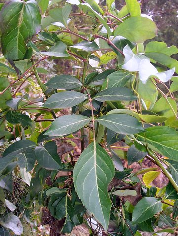 Polyscias sambucifolia subsp. sambucifolia at Bar Point, near Brisbane Water National Park